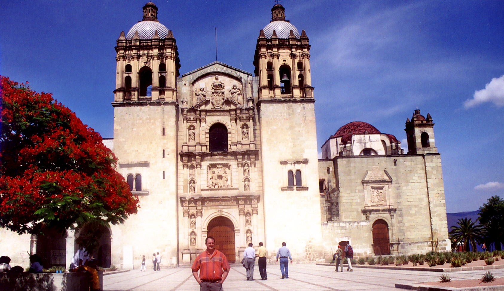 The front facade of the former Convent Santo Domingo, now a museum